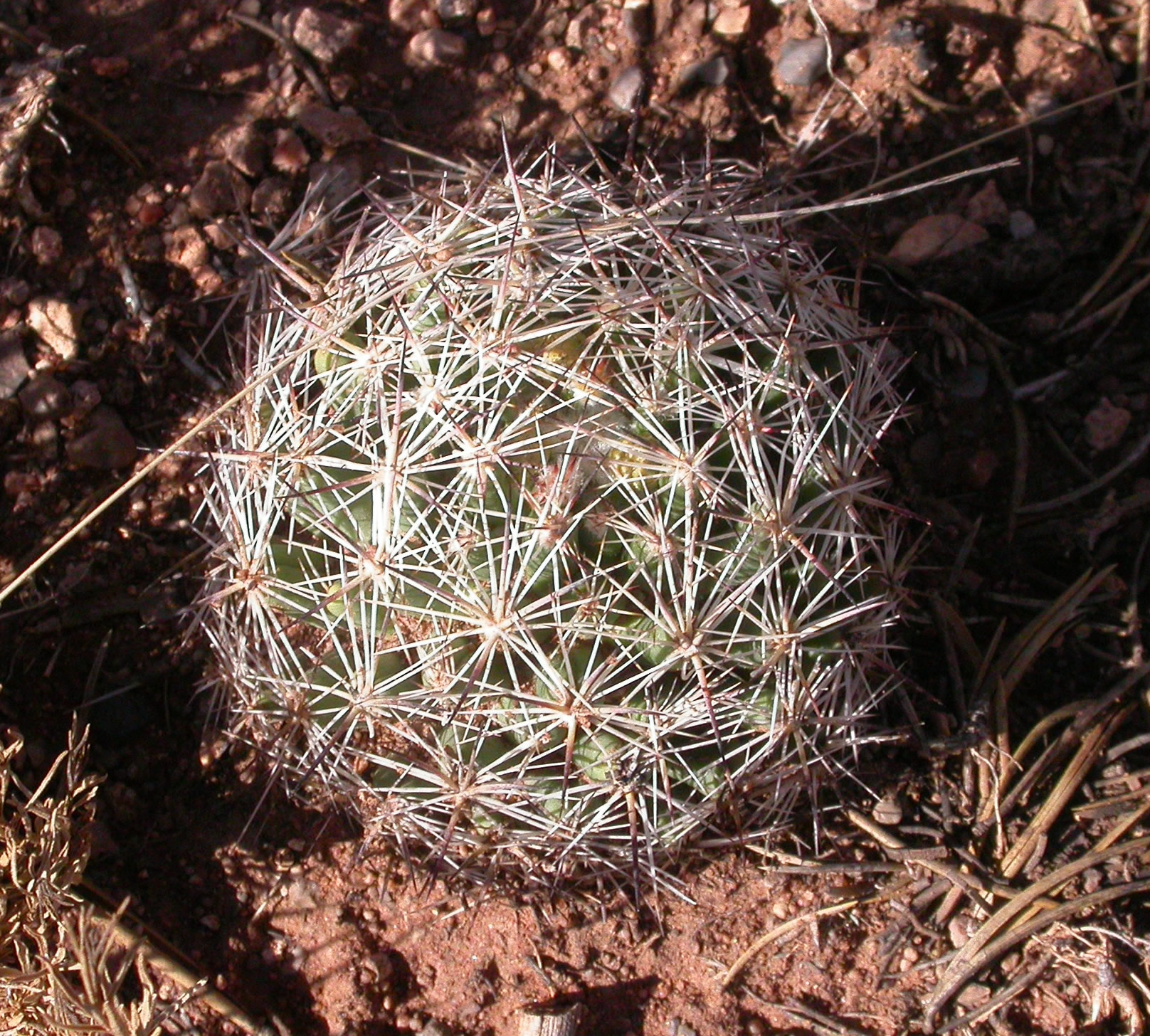 Northeast of Valle, Arizona.